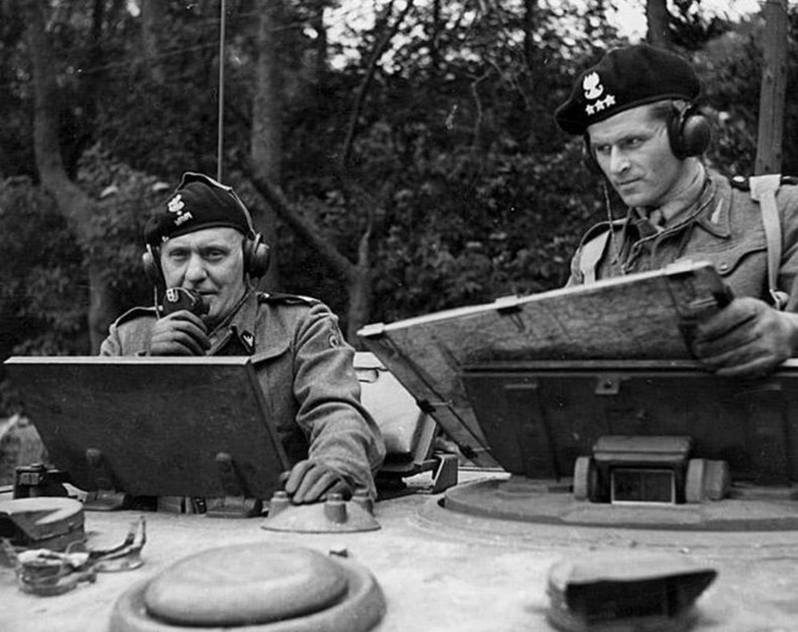 Stanisław Maczek (1892-1994) (on the left) - General of the Polish Army